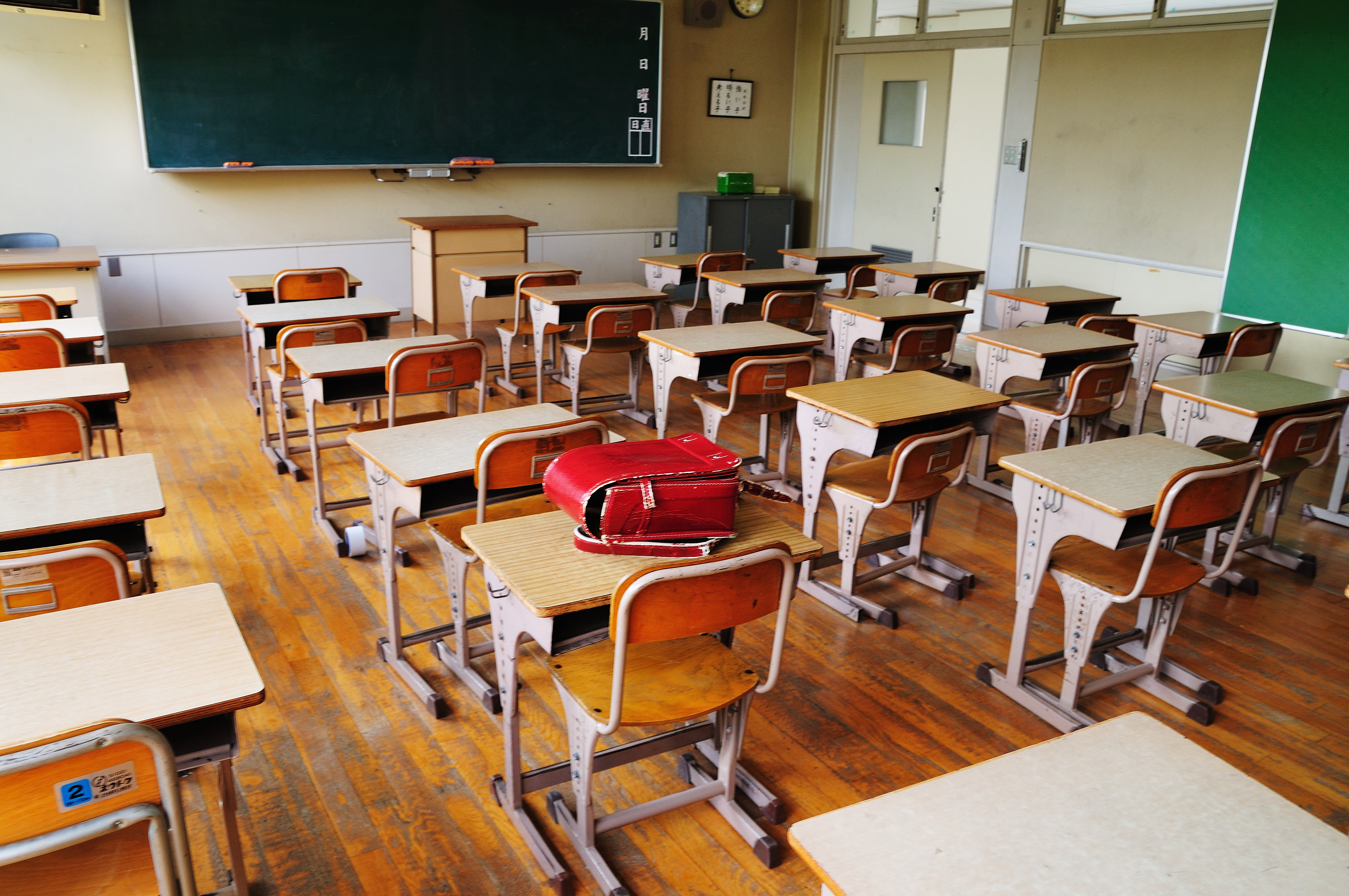 Heiwa elementary school %u5E73%u548C%u5C0F%u5B66%u6821 _18